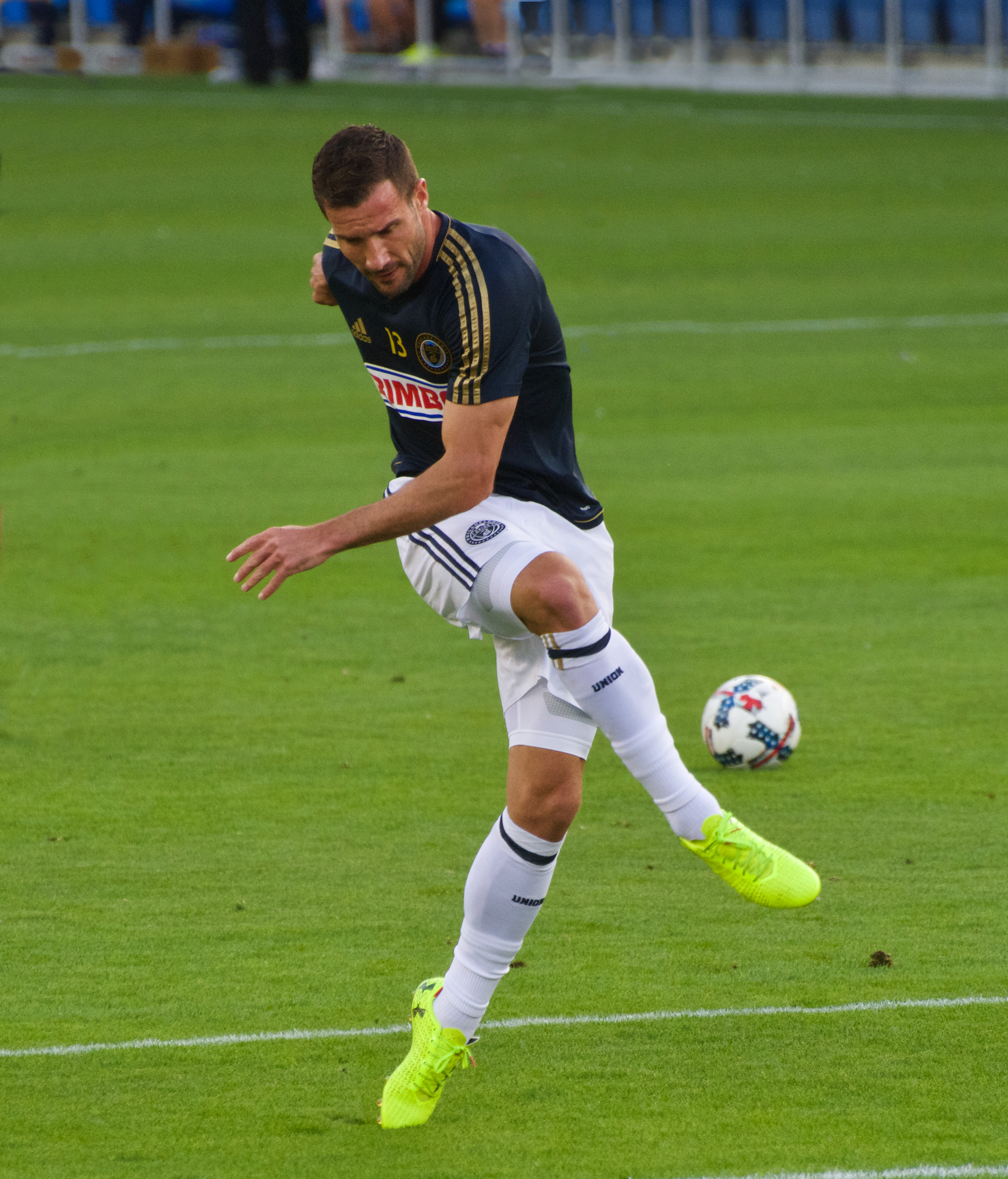 Chris Pontius warming up for Philadelphia Union at Avaya Stadium on 19 August 2017.